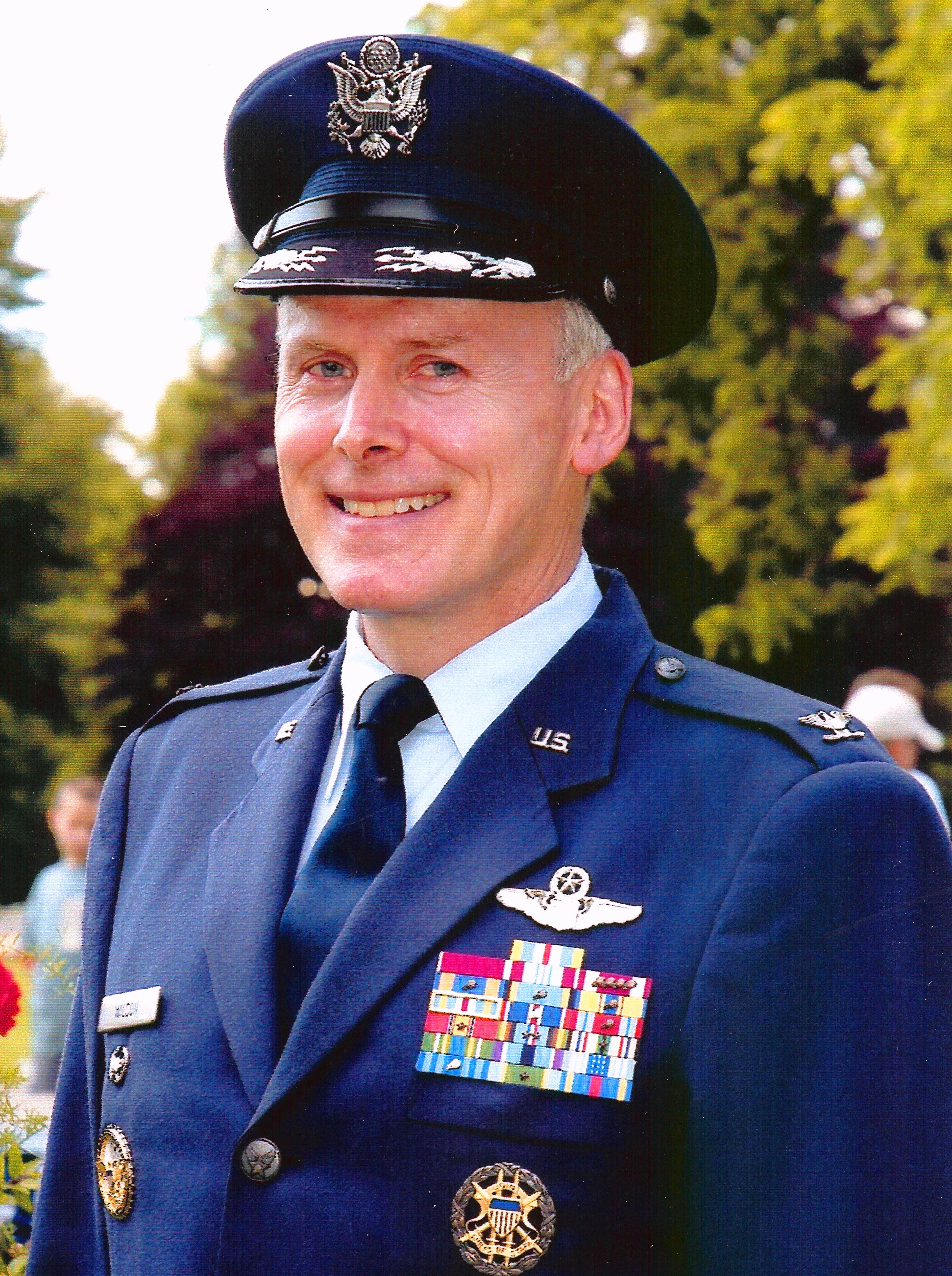 USAF Colonel Charles P. Wilson II at a Memorial Day ceremony in May 2005. USAF photo.